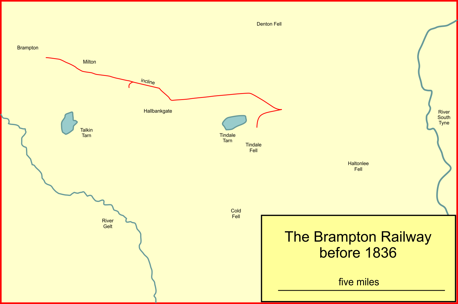 System map of the Brampton Railway, Northern England, prior to 1836